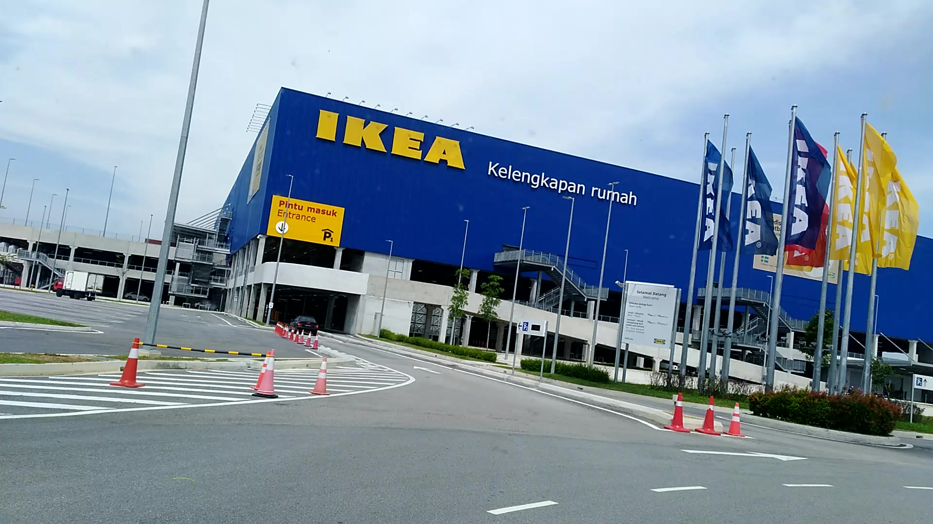 IKEA Batu Kawan